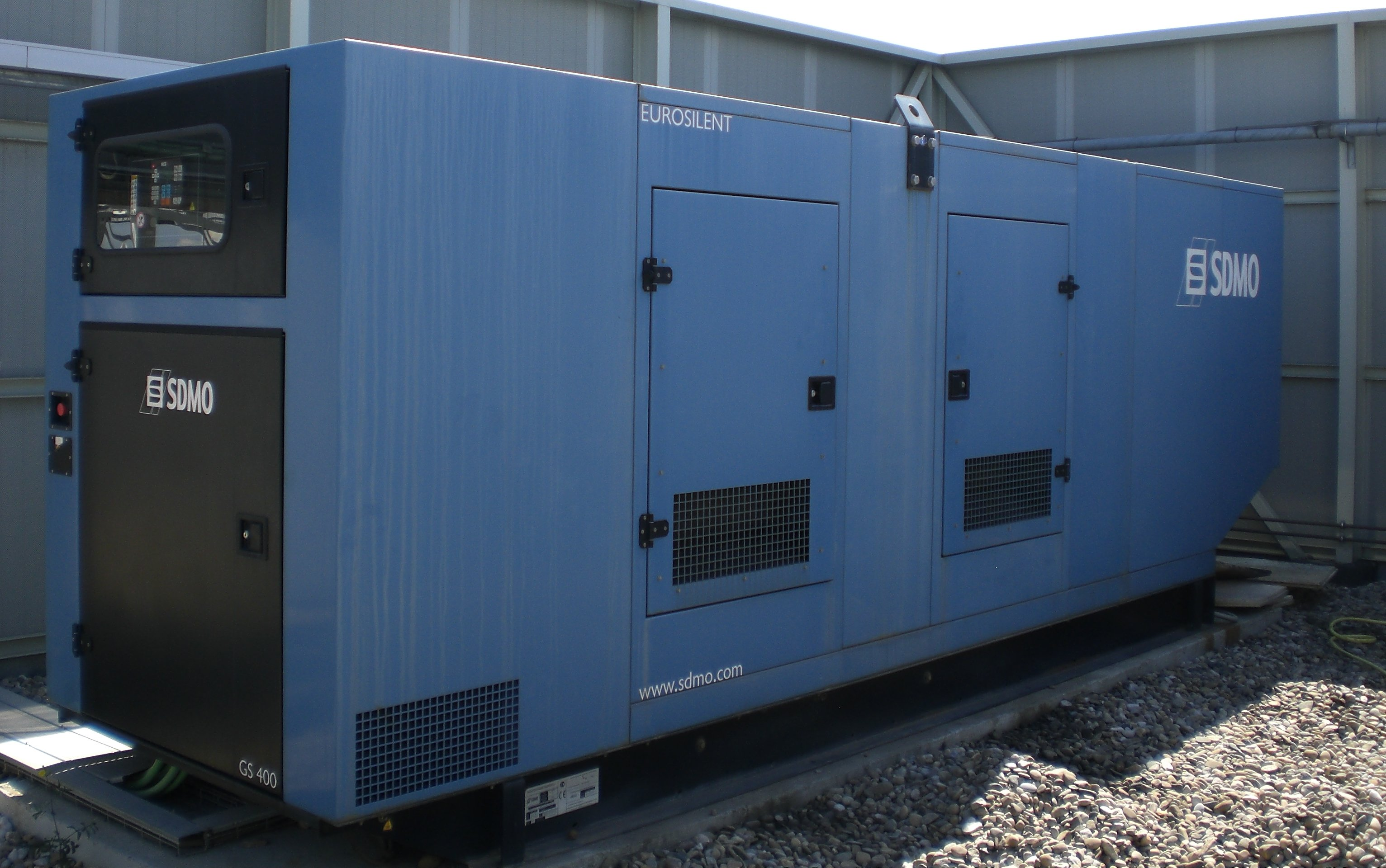 Power Generator GS 400 from SDMO Stromgenerator GS 400 von SDMO - Seitenansicht